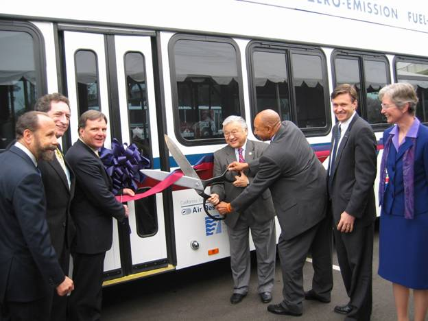 Congressman Honda lends San Jose Councilmember Forest Williams a hand at the ribbon cutting ceremony for the Zero-Emission Hydrogen Fuel Cell Bus Program.